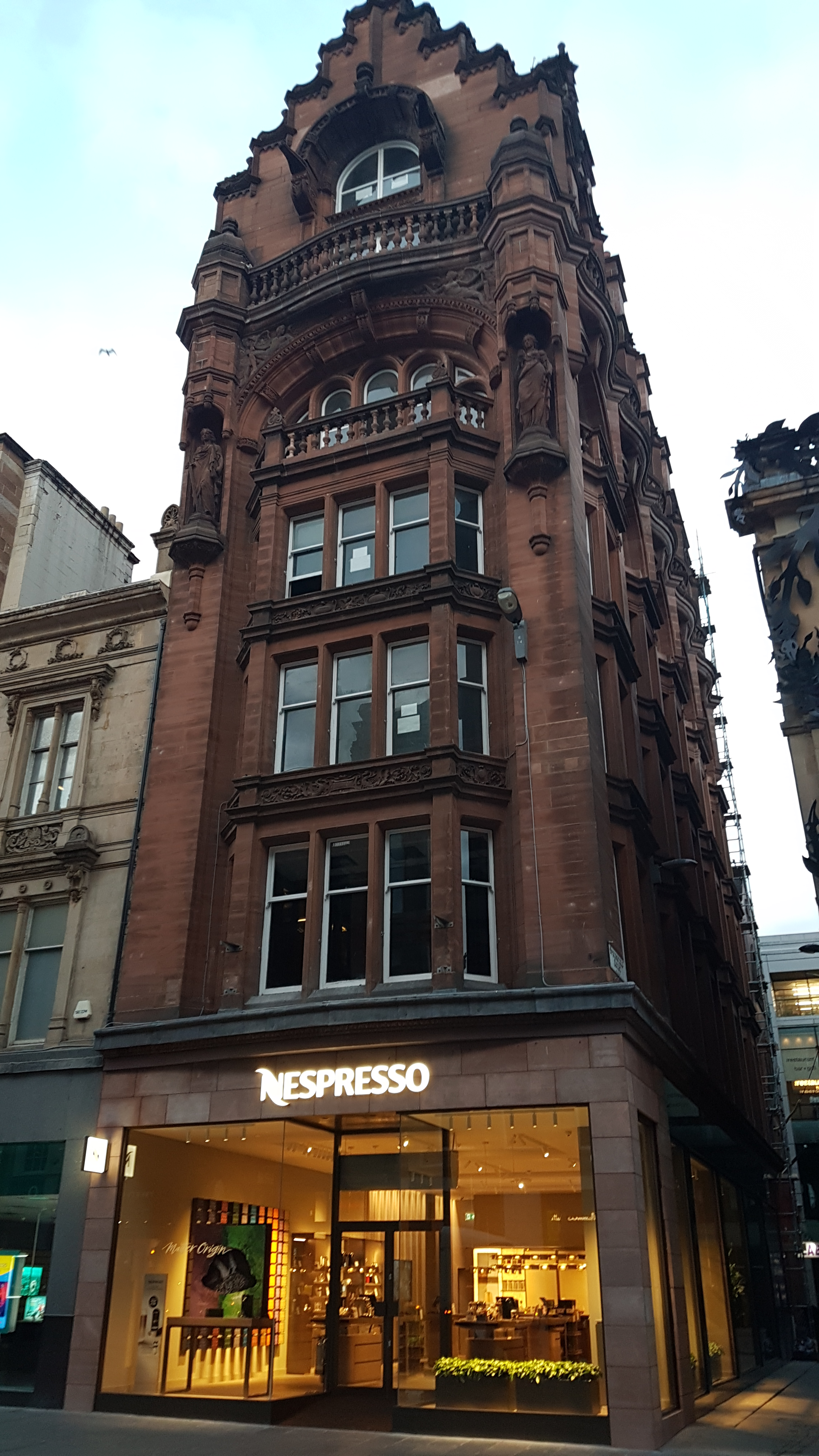 60-62 Buchanan Street Wikidata has entry Q17578570 with data related to this item.